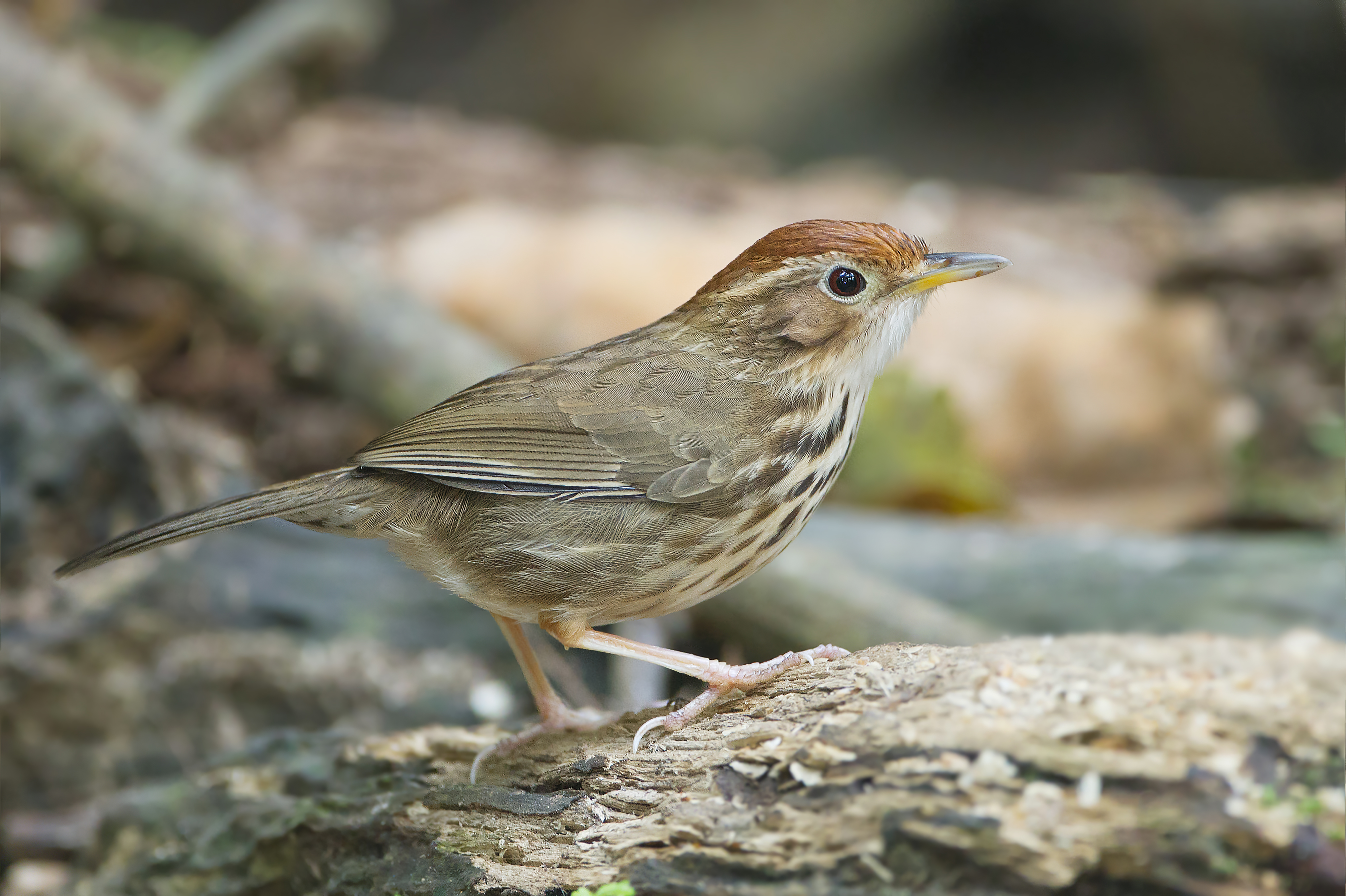 Puff-throated Babbler (Pellorneum ruficeps), Khao Yai National Park, Nakhon Ratchasima, Thailand